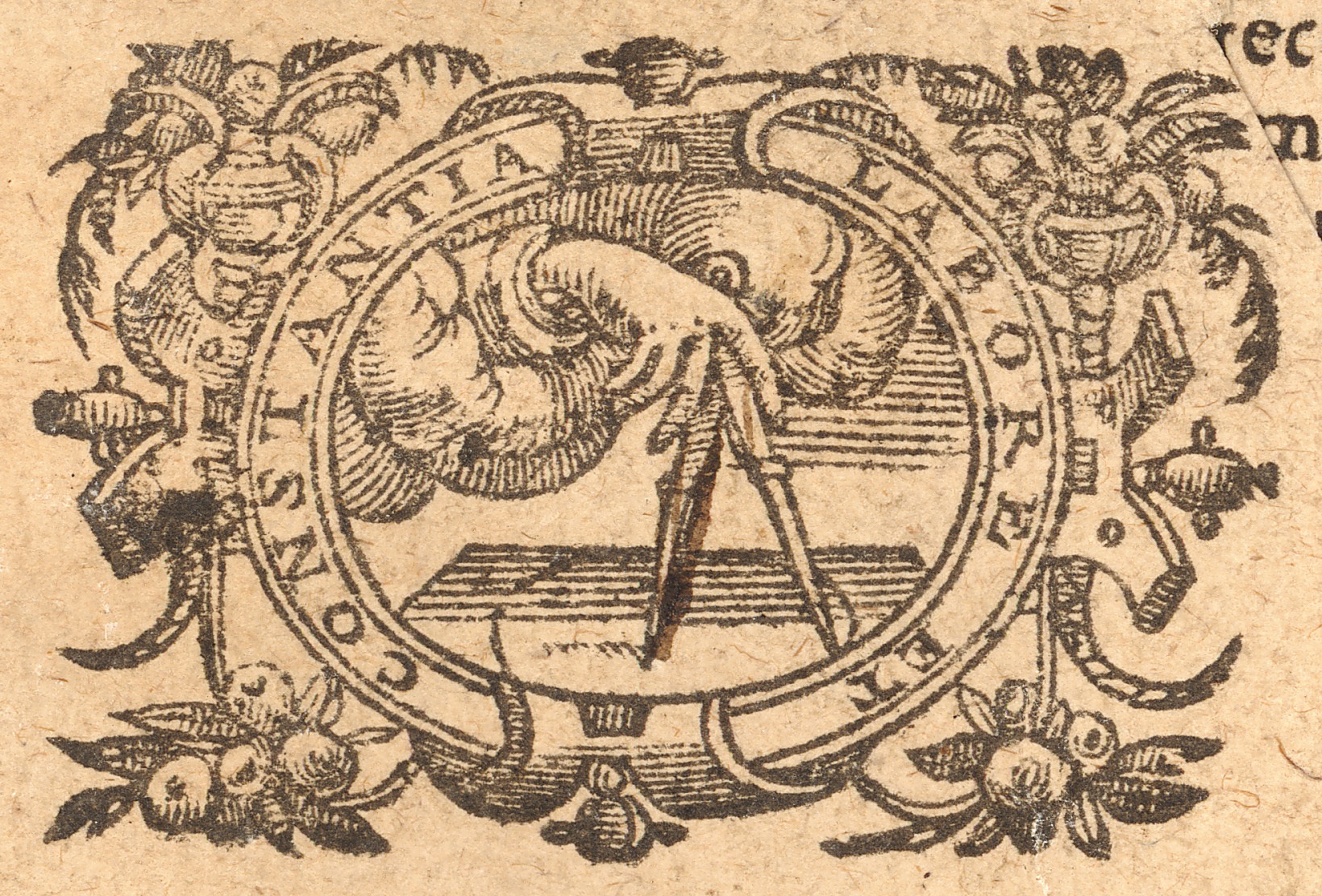 Plantin/Moretus emblema (Druckermarke, printer’s mark; woodcut) from the title page of Theodor Pulmann’s/Poelmann’s edition of Lucan’s De bello civili (alias Pharsalia), printed by the Officina Plantiniana (Plantin) and Jan/Johannes Moretus in Antwerp in 1592.